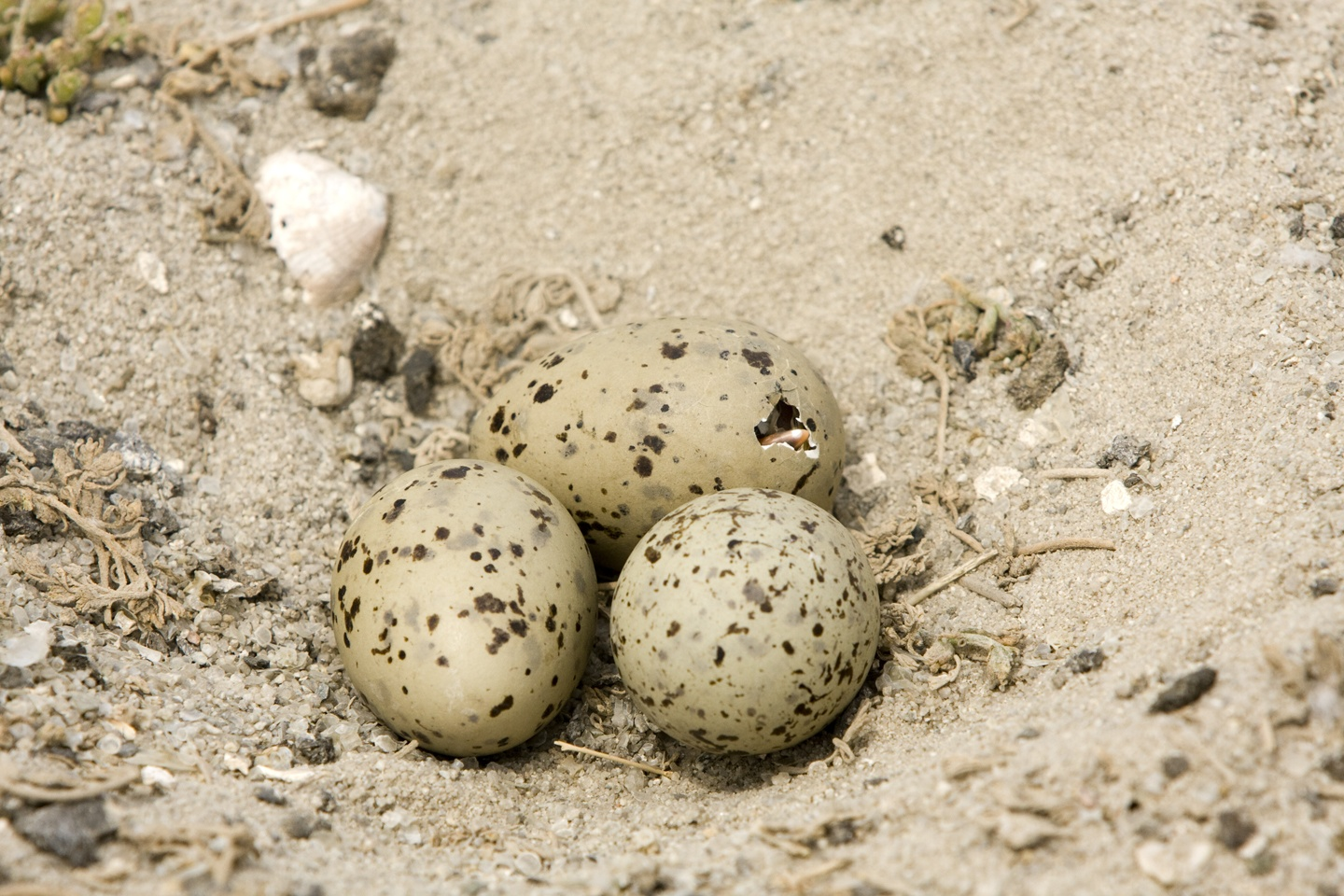 Elegant Tern eggs at South Bay Salt Works, Port of San Diego, San Diego, USA.